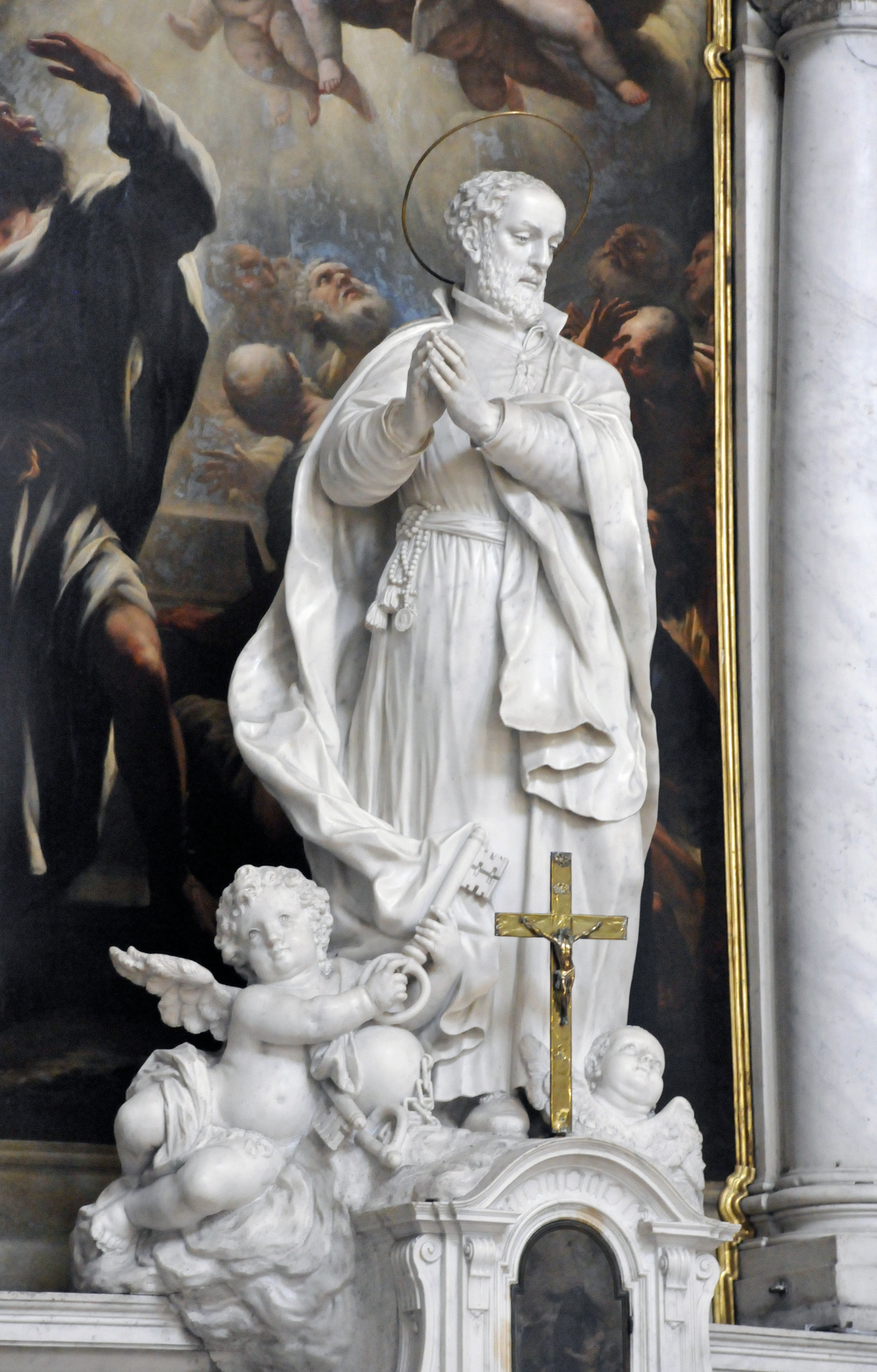 Girolamo Miani by Giovanni Maria Morlaiter on the Altare dell'Assunta